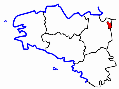 Map for localisazion of cantons of Pays-de-Loire, region in France